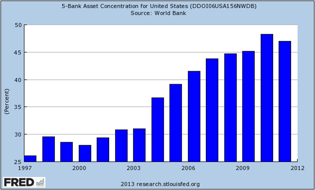 Shows the percentage of bank assets held by largest five U.S. banks